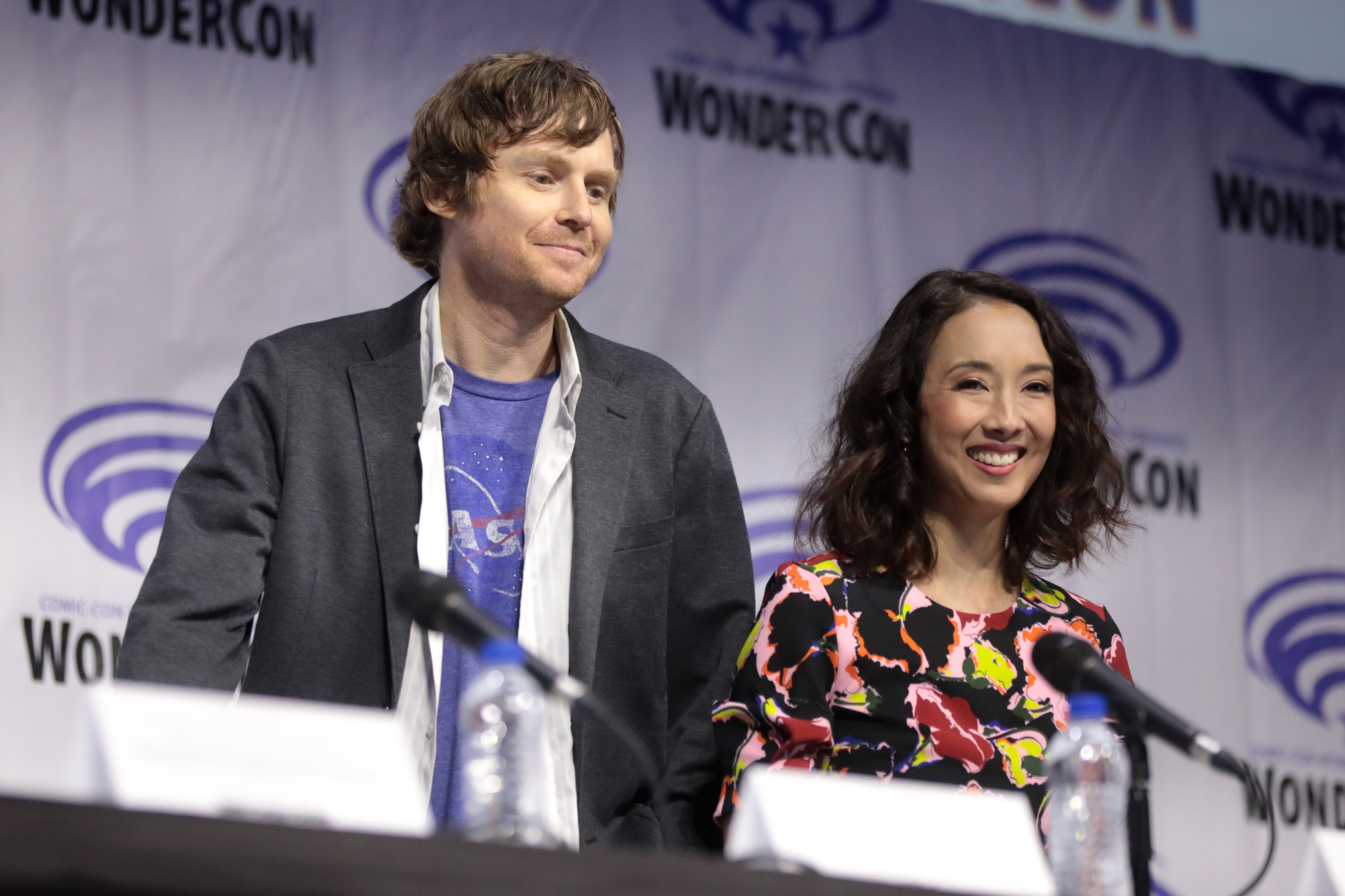 Jed Whedon and Maurissa Tancharoen speaking at the 2019 WonderCon, for "Marvel's Agents of S.H.I.E.L.D.", at the Anaheim Convention Center in Anaheim, California.